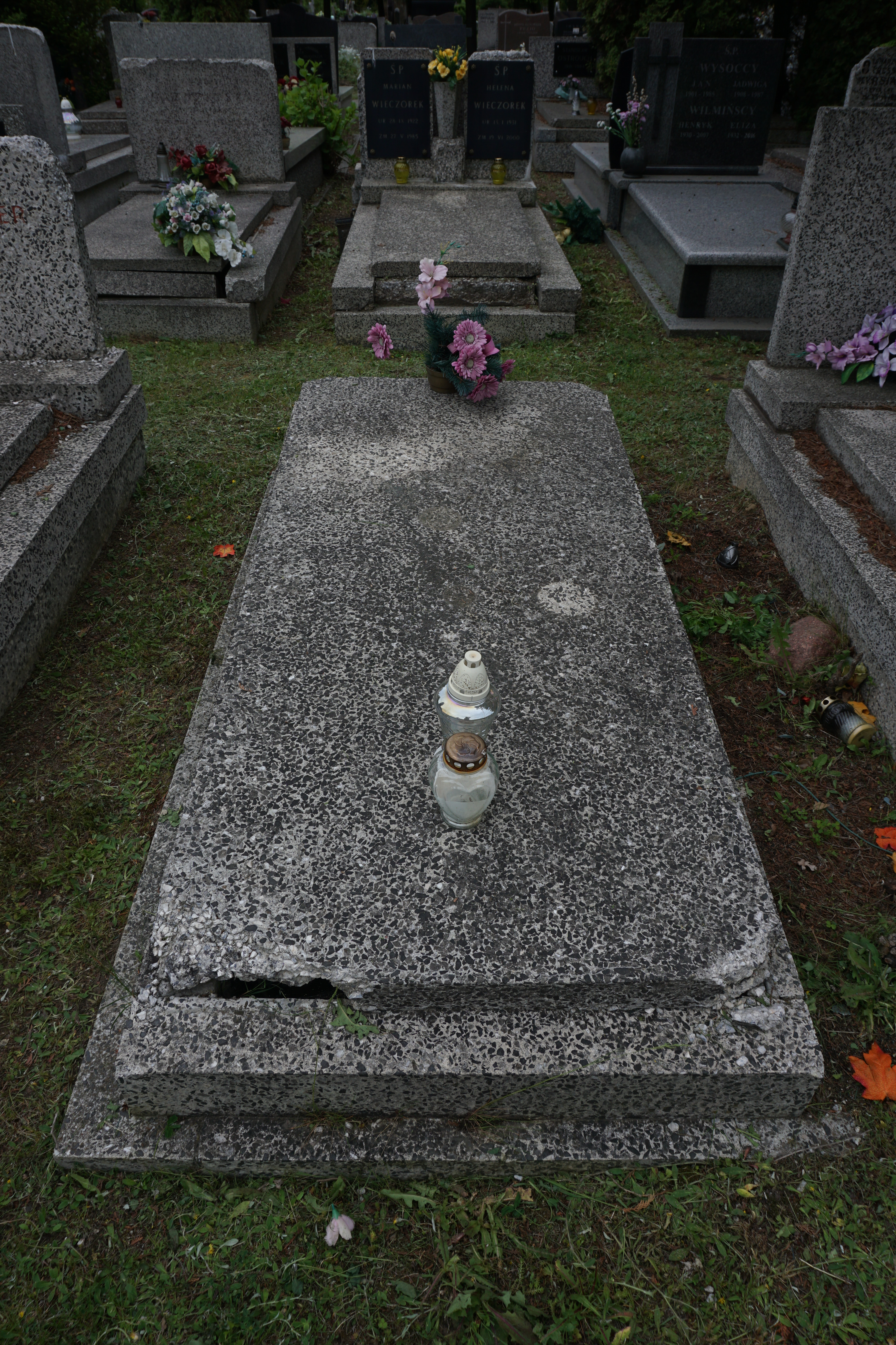 The grave of Bronisław Wiernik at the North Municipal Cemetery in Warsaw (section E-VII-1, row 1, grave 14)